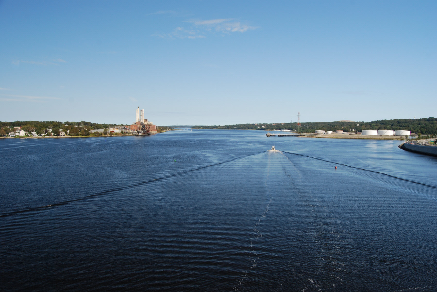 View of Taunton River from the Veterans Memorial Bridge, looking north, with the now closed Montaup Power Station on the left. Taken on "bridge day", September 11, 2011, when the new bridge was officially dedicated. The Town of Somerset is on the left, and the City of Fall River is on the right.